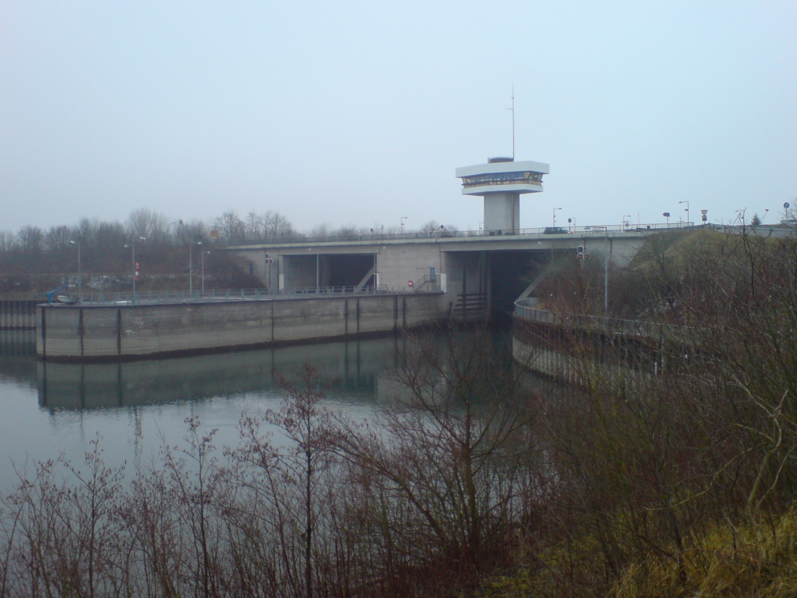 The lock at Iffezheim, Germany from the downstream side. The road bridge (and border crossing route) to France (out of the image to the right-hand side) is partly visible on top of the lock entrance gates.